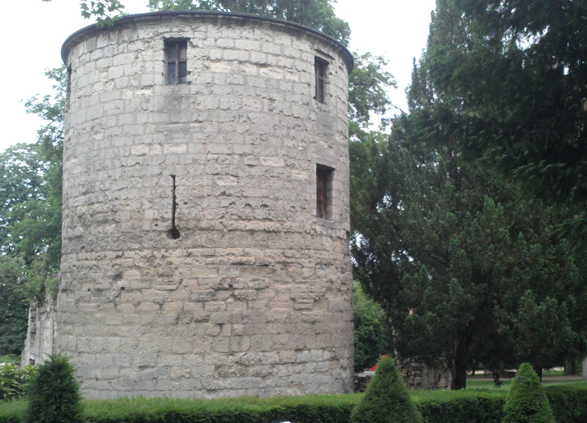 Tour Rabelais of the Abbaye In Saint Maur des Fossés, France, south side, built ca. 1358. Picture taken on 16 June 2012.